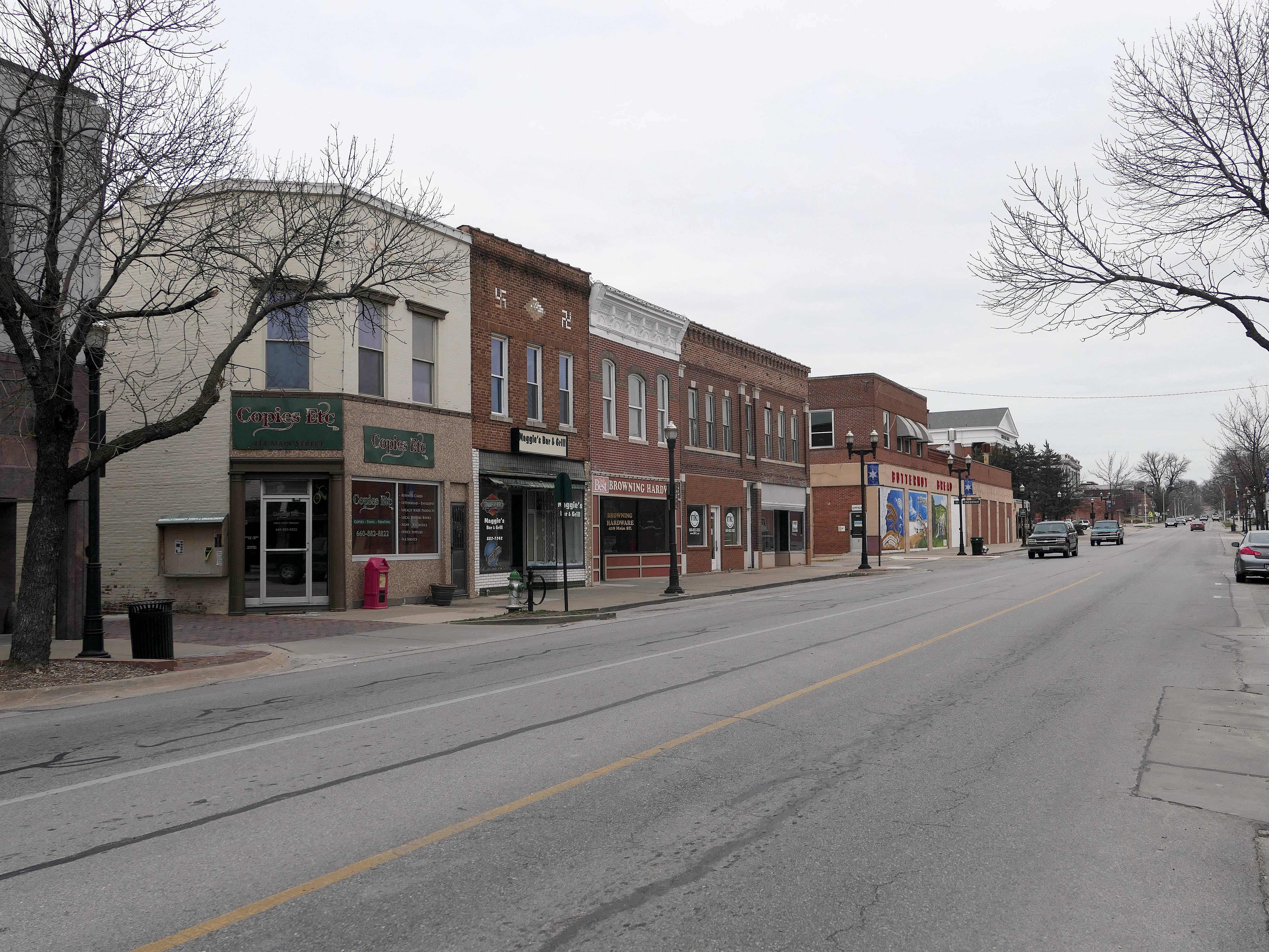 Boonville Main Street